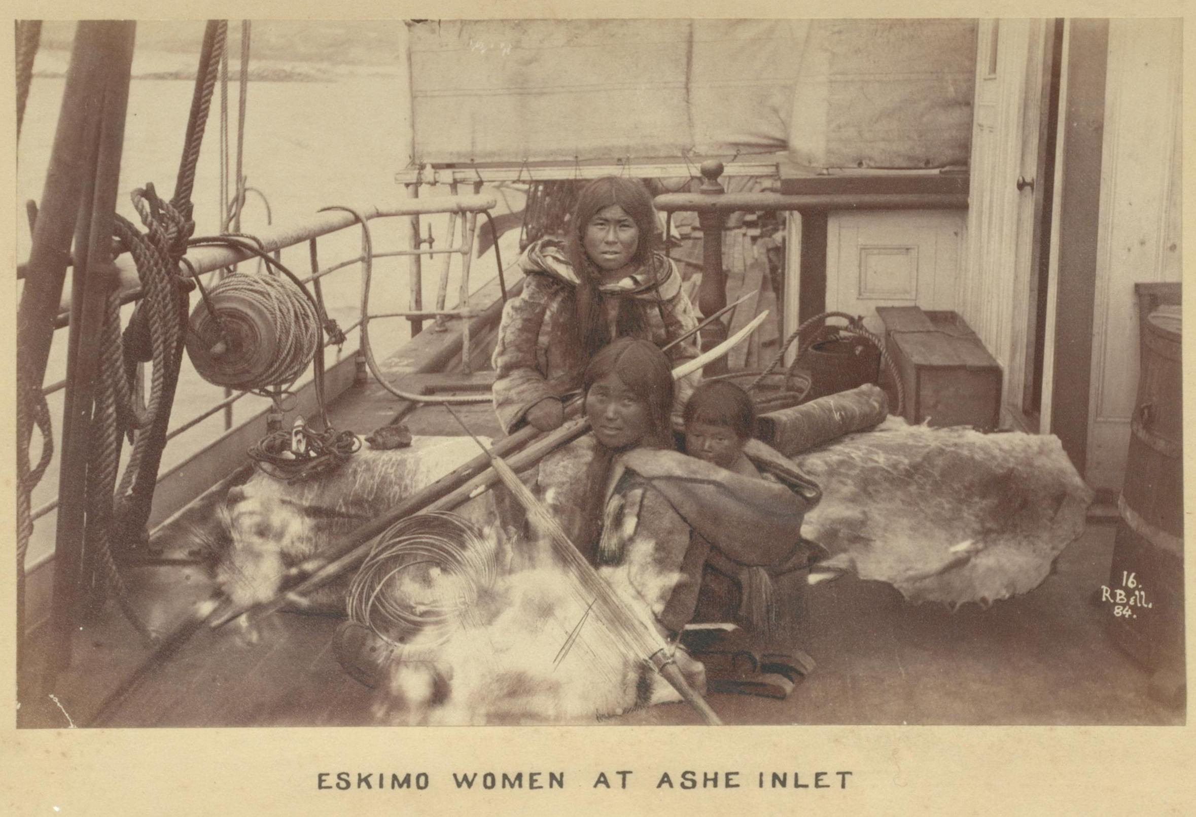 Creator: Bell, Robert (1841-1917) Title: Eskimo Women at Ashe Inlet Date: 1884 Extent: 1 photograph: b&w ; (12x19.5cm) Notes: From an album of photographs of Ashe Inlet, 1884-1886 Format: Photograph Rights Info: No known restrictions on access Repository: Thomas Fisher Rare Book Library, University of :Toronto, Toronto, Ontario Canada, M5S 1A5, : Part of: MS. Coll. 310 Tyrrell (James Williams) Papers. Finding Aid located at